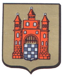 The coat of arms shield of Oudenburg.